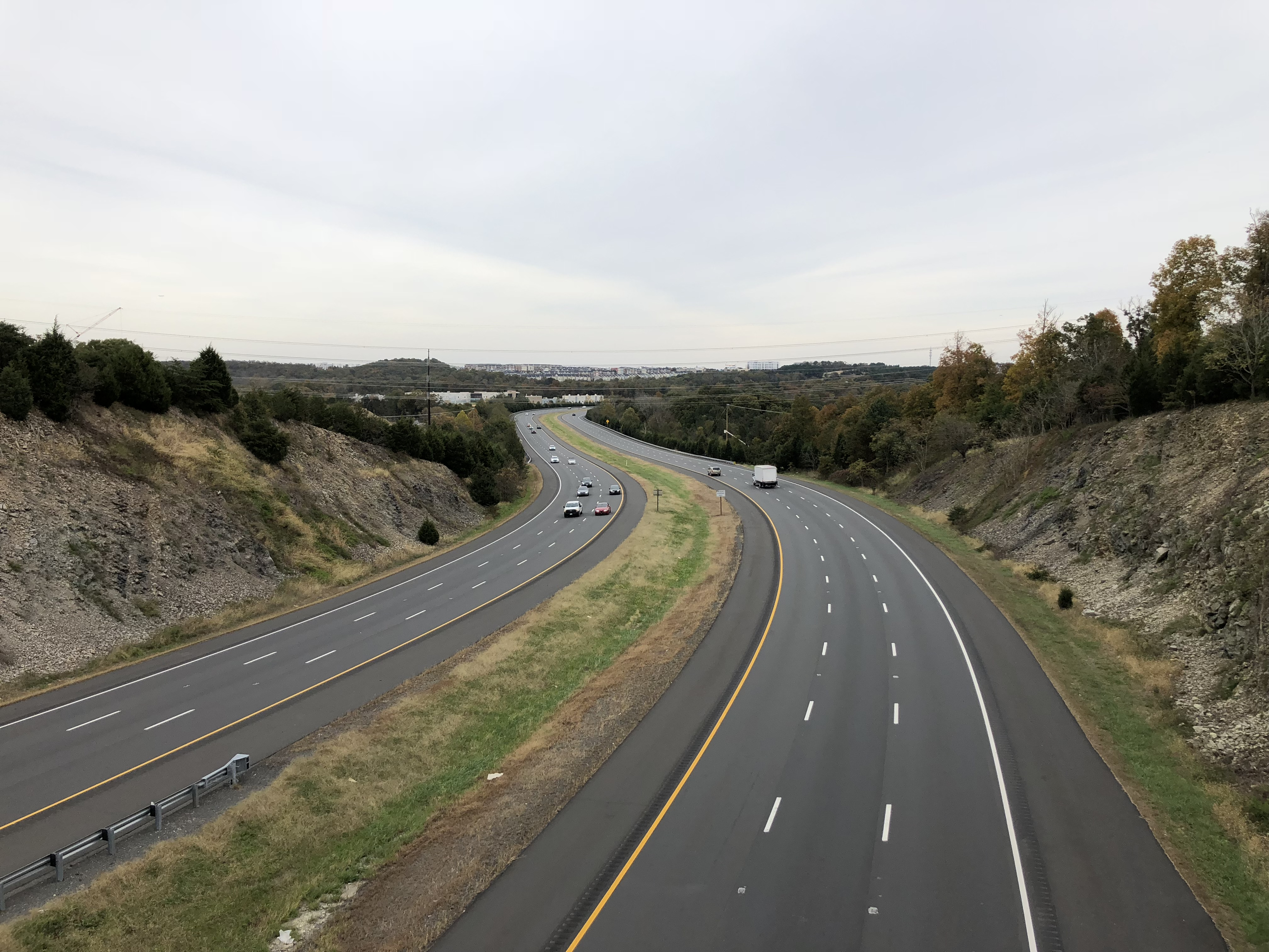 View east along Virginia State Route 267 (Dulles Greenway) from the overpass for Virginia State Route 643 (Sycolin Road) west of Goose Creek in Sycolin, Loudoun County, Virginia